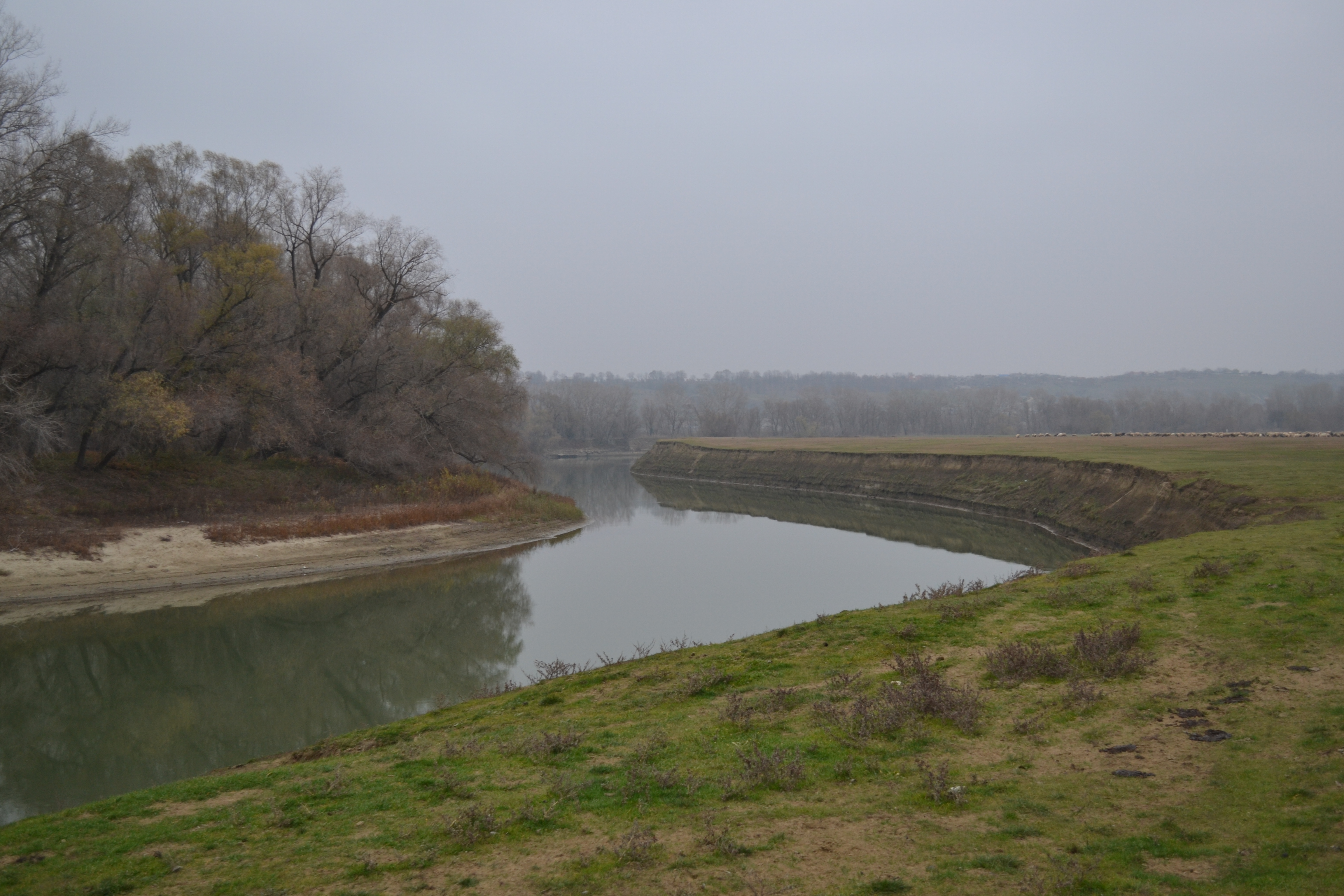 Pruth river near Stănilești, Vaslui County